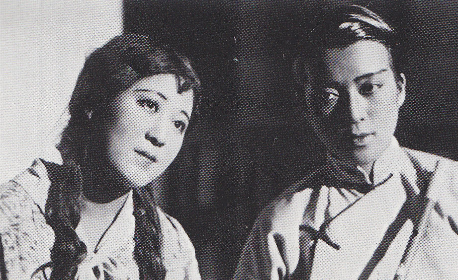 Shochiku Revue stars Orie TSUSAKA(right) and Kikuko ICHIMURA.